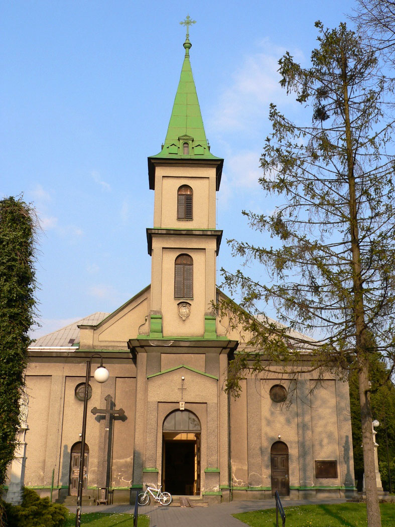 Roman Catholic church in Horní Suchá (Sucha Górna), Czech Republic.